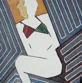 "Absence of beauty was like hell" (100 x 100 cm) , by Erik Pevernagie John Keats versus Immanual Kant Poet John Keats was fascinated by beauty. " A thing of beauty is a joy forever." : Beauty is a source of recurring joy and happiness. Philosopher Emanuel Kant distinguishes the "beautiful" from the "sublime." The beautiful pleases universally. It is an object of constant delight. The "sublime," however, is not to be found in nature, but only in our own ideas, in our own mind. But what do we do, when beauty is absent? What, when botox has failed? Many people are ready to die for beauty and prepared to go through an infernal desert of starvation. The absence of beauty means ultimate loneliness. The absence of beauty means guilt and exile into no-mans land. Life is an outcast’s journey through a gloomy valley when beauty has forsaken." But beauty is not a warrant for wellbeing and so does happiness not hinge on social success, but is only legible via intricate, meandering discovery journeys in the mind. In the architecture of their life, some may display Potemkin happiness in view of hiding the dark features of their fair weather relationship, preferring to set up a window dressing of fake satisfaction for fear of being rejected as emotional outcasts.